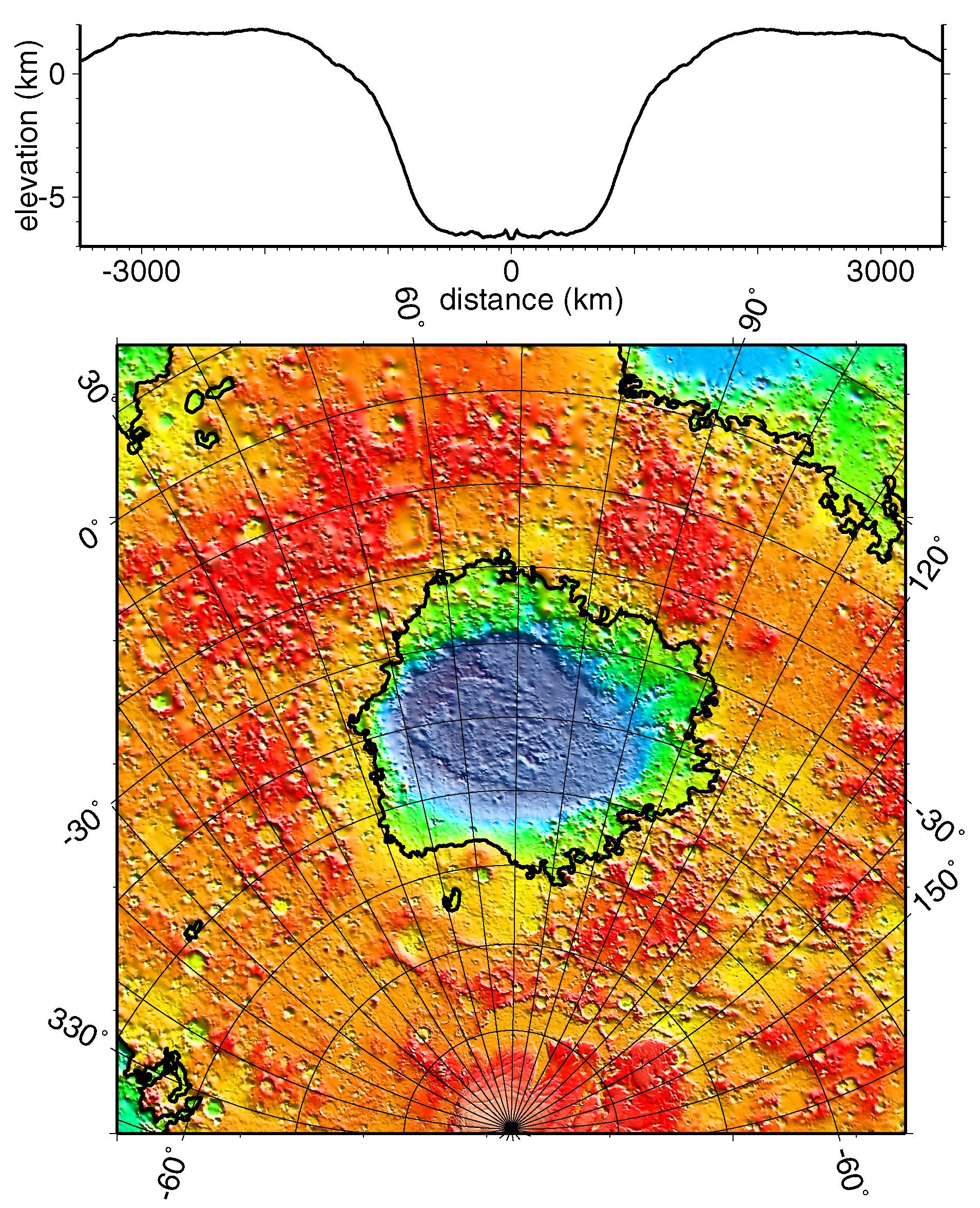 Regional topographic model of the Hellas basin (Hellas Planitia) taken by the MOLA instrument aboard the Mars Global Surveyor. (Top) Azimuthally-averaged radial topography used in the calculation of infilling the basin with surrounding material postulated to have been excavated from it. (Bottom) Color-coded topography plotted in an equal-area projection. The black lines correspond to zero-elevation contours.